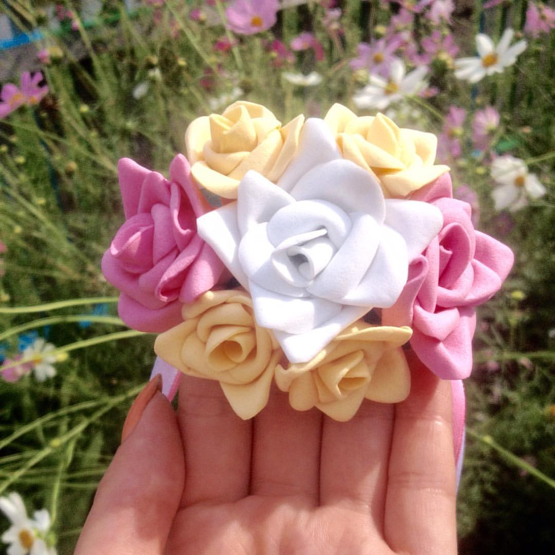 Изделие из фоамирана ручной работы